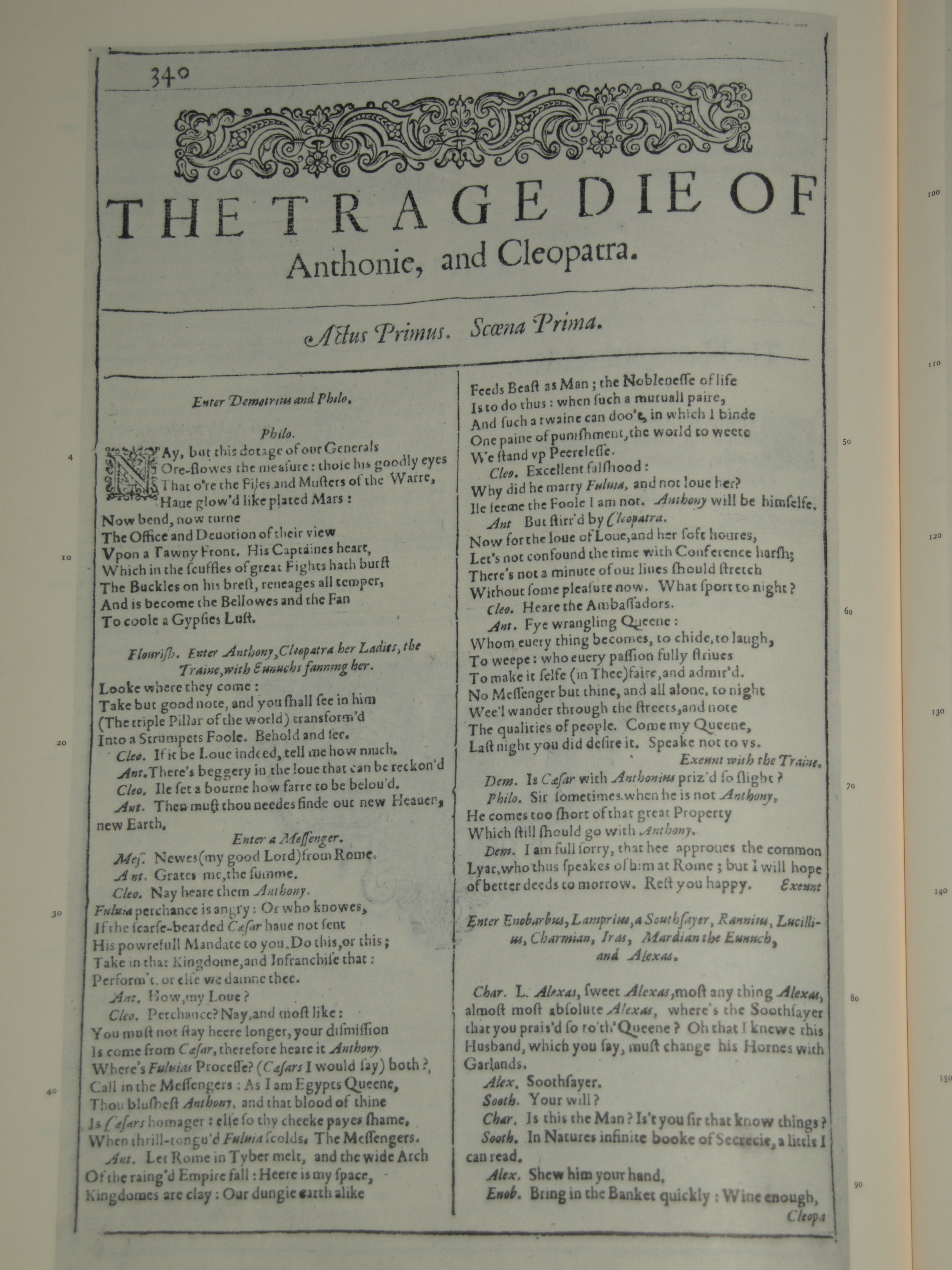 Photo of the first page of Antony and Cleopatra from a facsimile edition of the First Folio of Shakespeare's plays, published in 1623